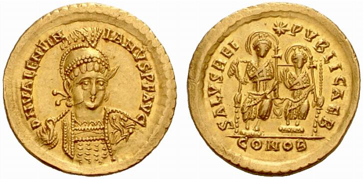 Valentinian III, 425-455, Solidus, Constantinople circa 425–429, AV 4.38 g. D N VALENTIN – IANVS P F AVG Helmeted, pearl-diademed and cuirassed bust three-quarters facing, holding spear and shield with horseman and enemy motif. Rev. SALVS REI – PVBLICAE B Two emperors, nimbate, enthroned facing, both in consular robes, holding mappa and cruciform sceptre; above, between them, star. In exergue, CONOB. C 9. RIC Theodosius II 242. MIRB Theodosius II 24b. LRC 837 var. (officina A).